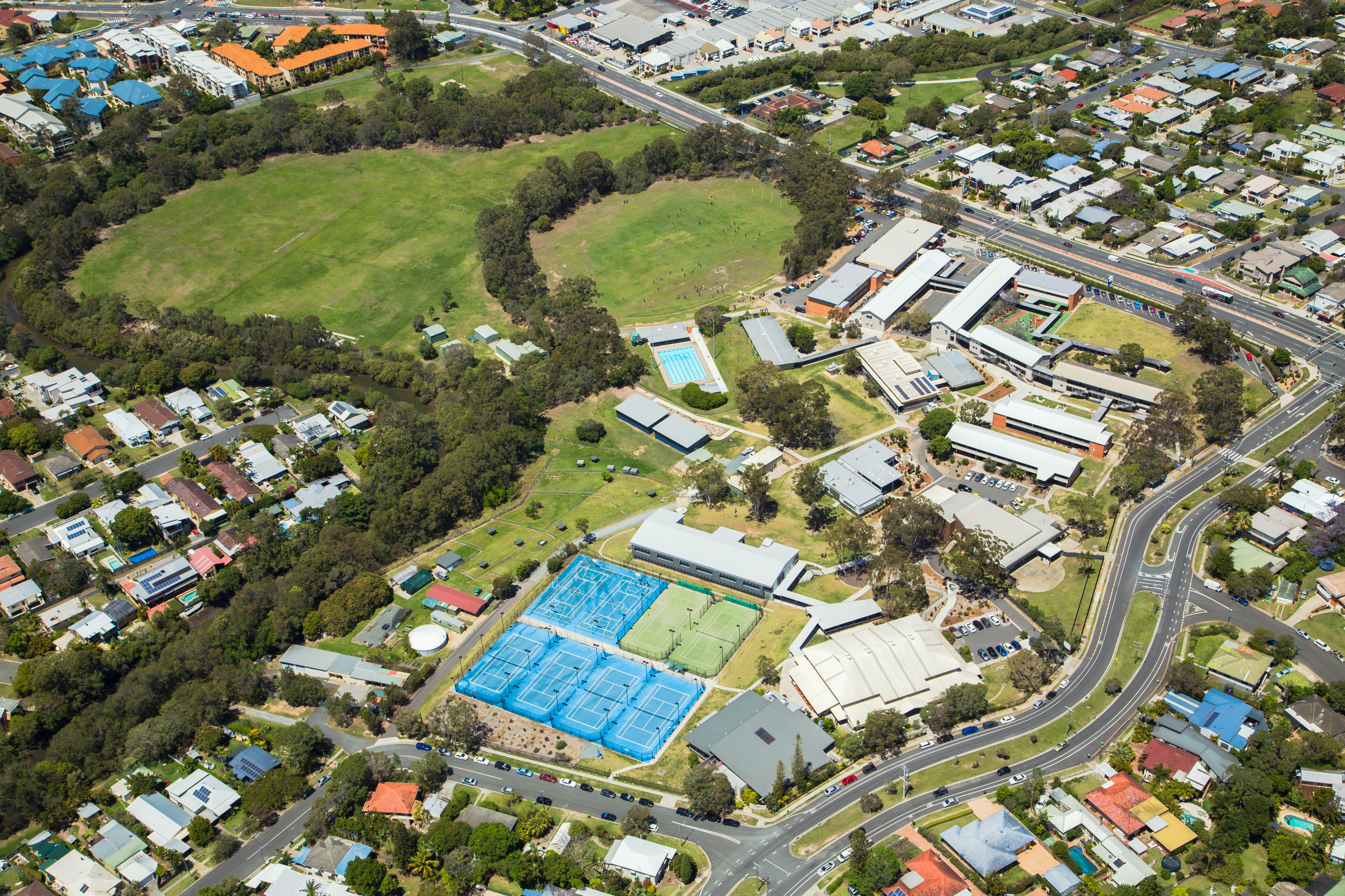 Southport State High School Aerial Photograph